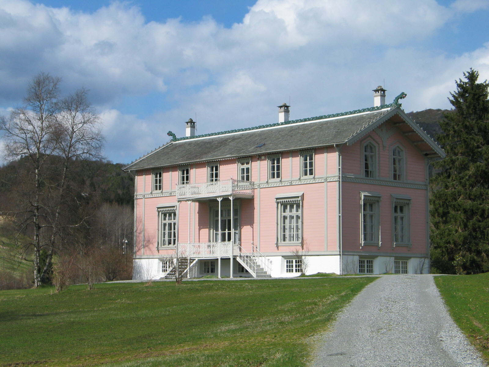 View of the violinist Ole Bull's home at Valestrandsfossen at Osterøy near Bergen, Norway